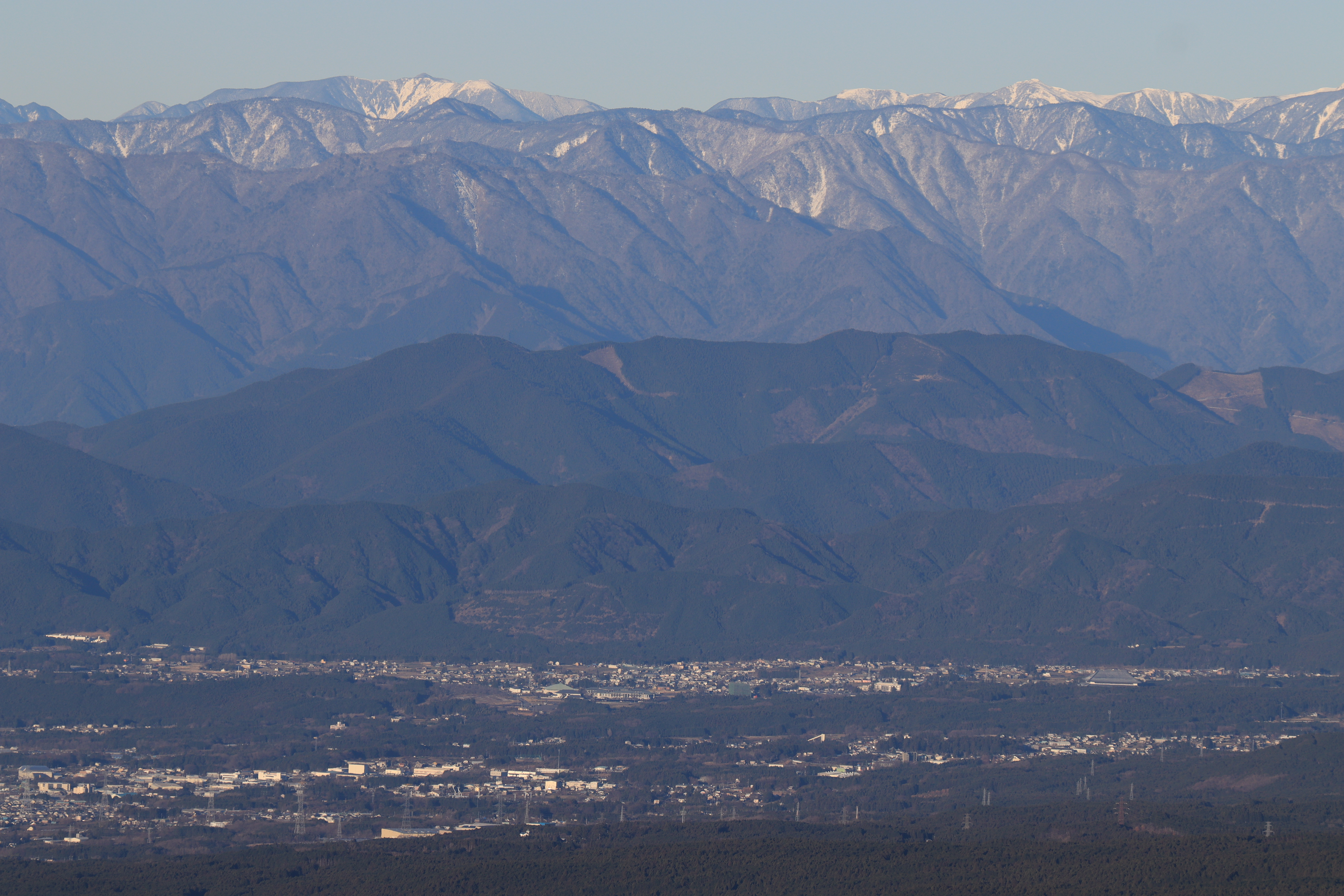 Mount Shishin and Akaishi Mountains (Mount Tekari and Mount Chausu) seen from Mount Echizen in Shizuoka Prefecture, Japan.